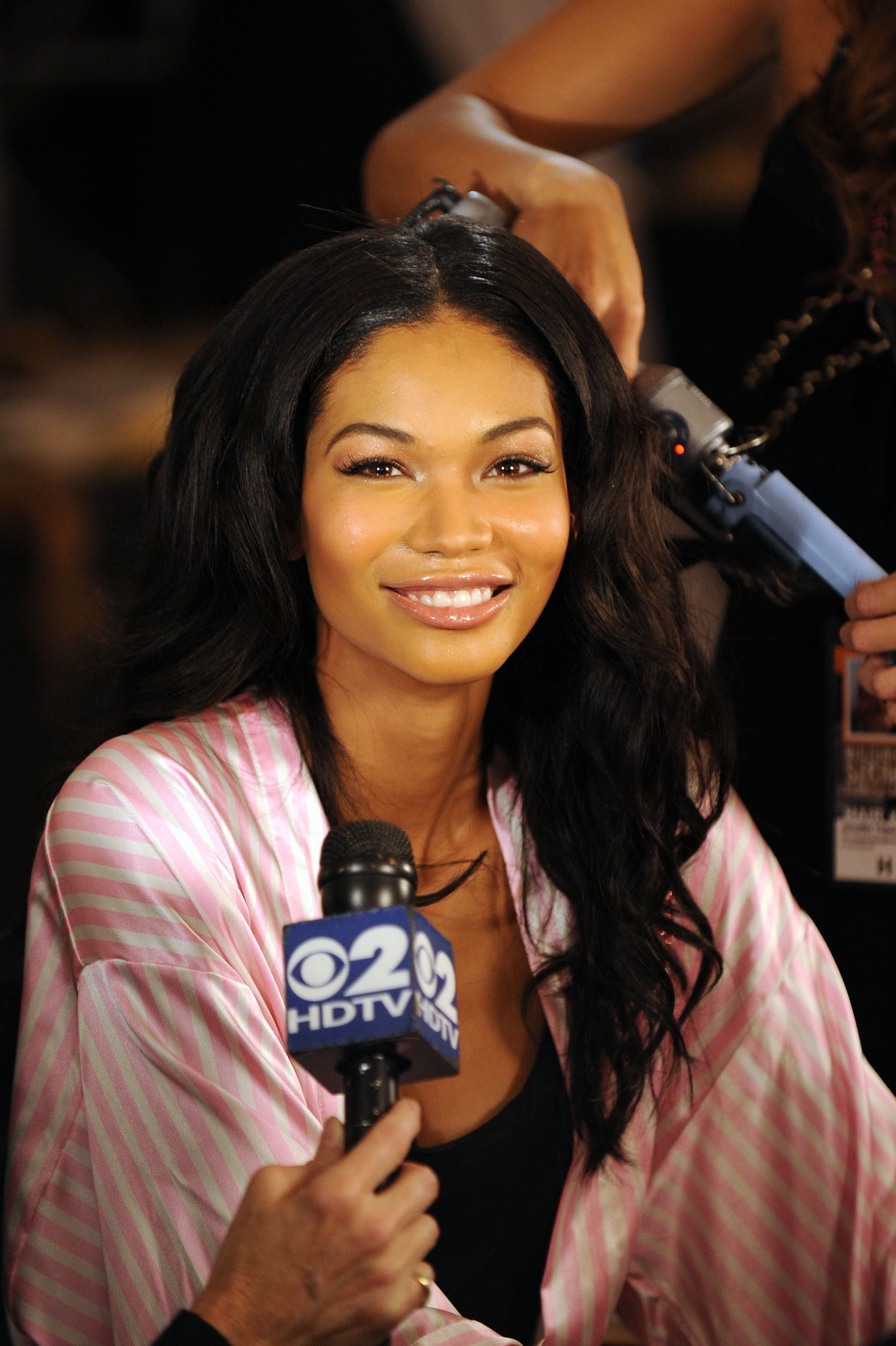 Model Chanel Iman attends the Victoria's Secret fashion show at The Armory on November 19, 2009 in New York City